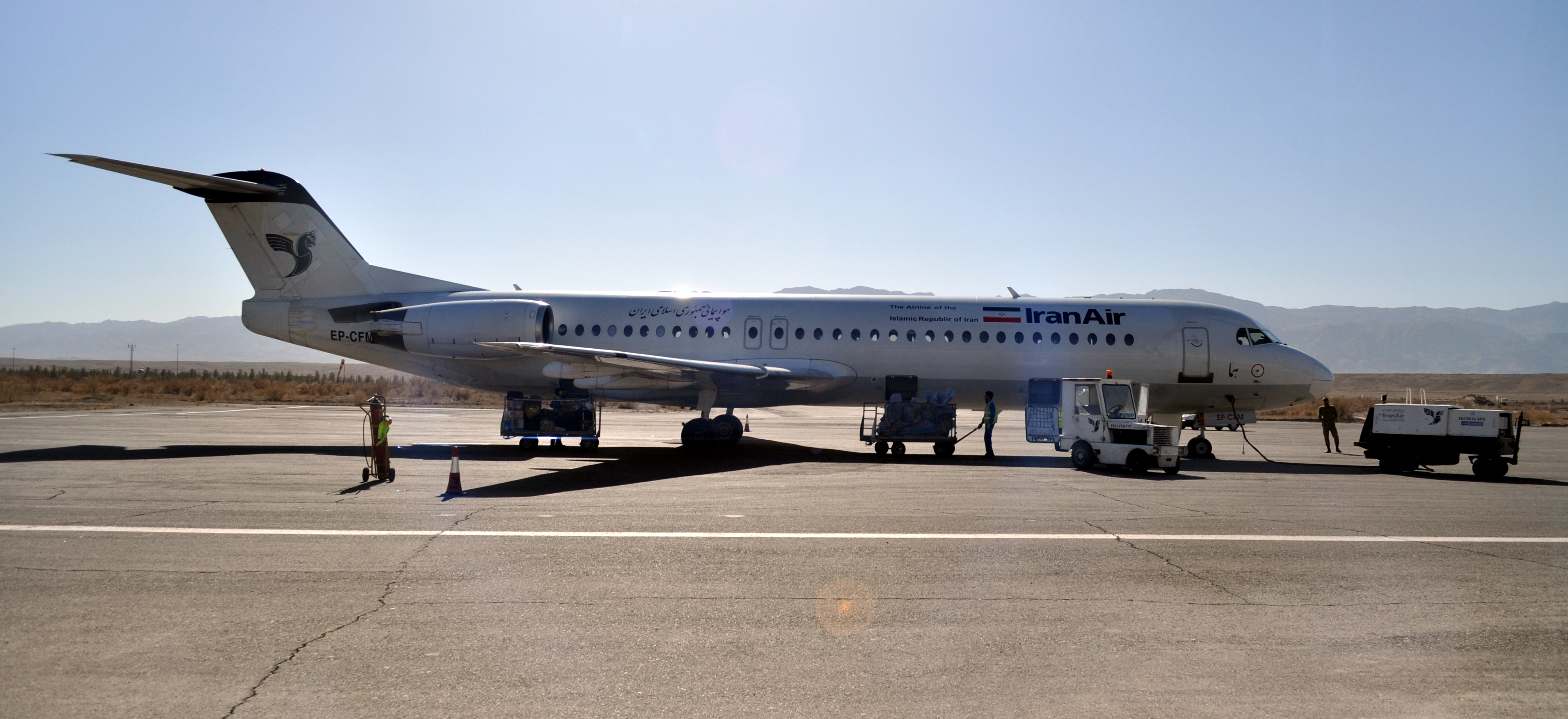 Iranair flight at Birjand Airport